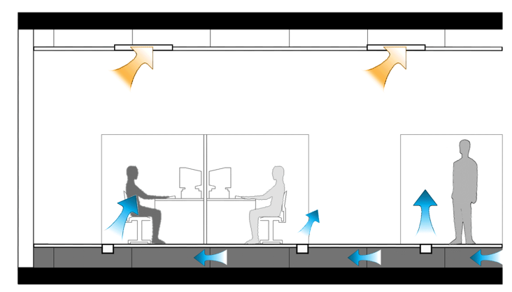 Underfloor Air Distribution scheme